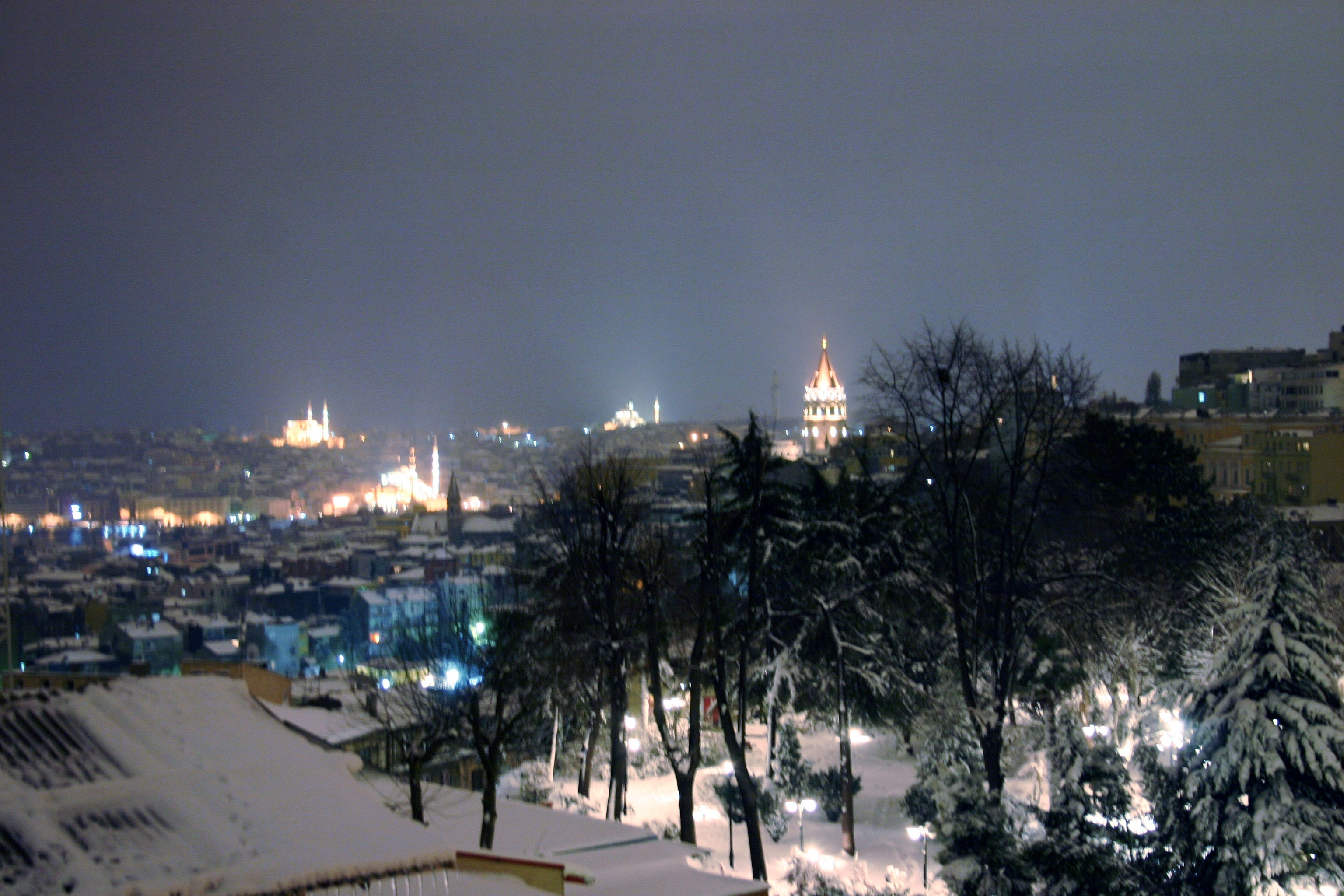 View of Istanbul. Photo by Bertil Videt, 2006.